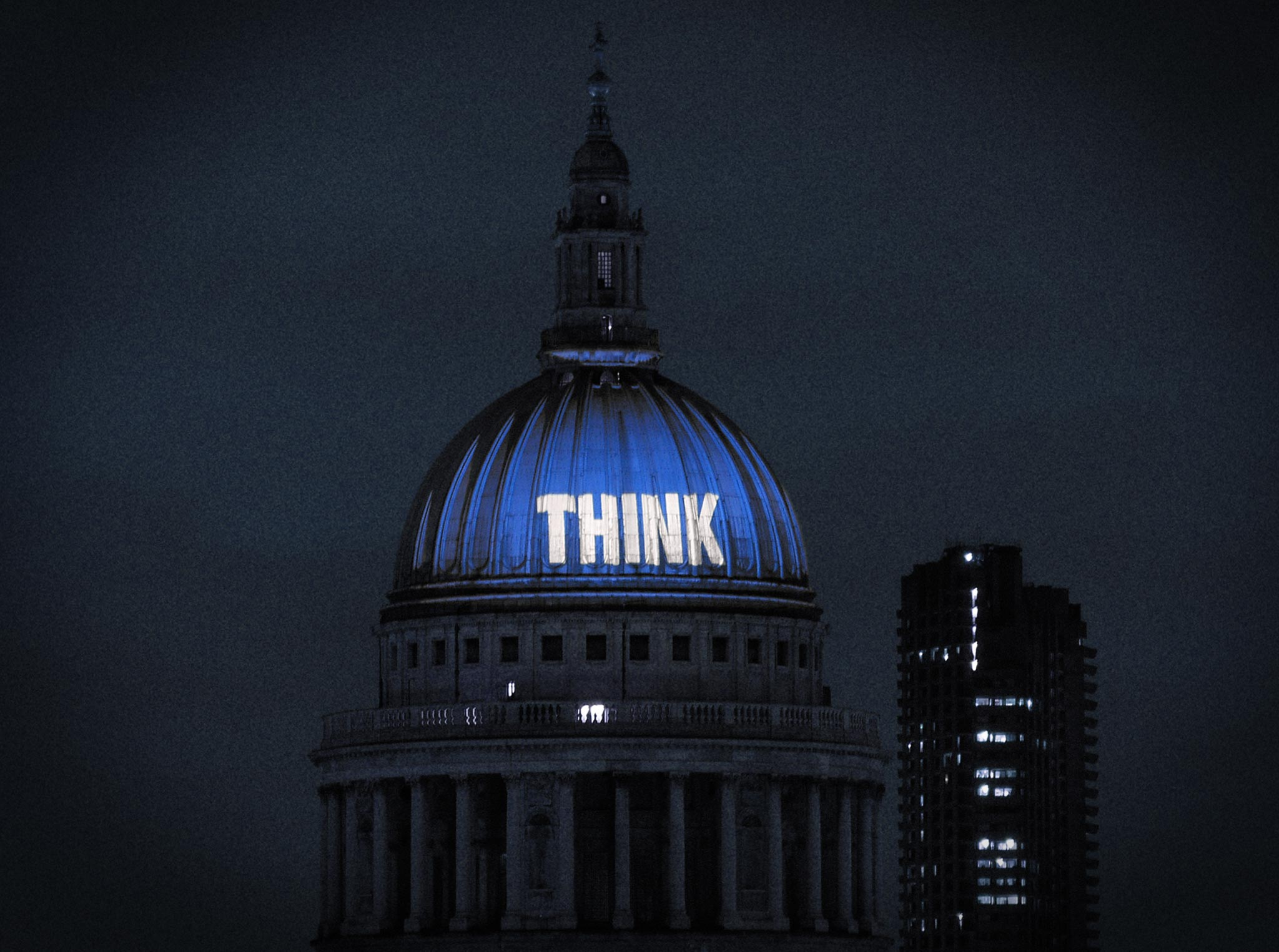 Text projections by public artist Martin Firrell onto the dome of St Paul's Cathedral, London. Commissioned by Dean and Chapter to mark the 300th anniversary of the topping out of Sir Christopher Wren's cathedral building. Titled 'The Question Mark Inside' the artwork presented a stream of answers to the question, what makes life meaningful and purposeful?